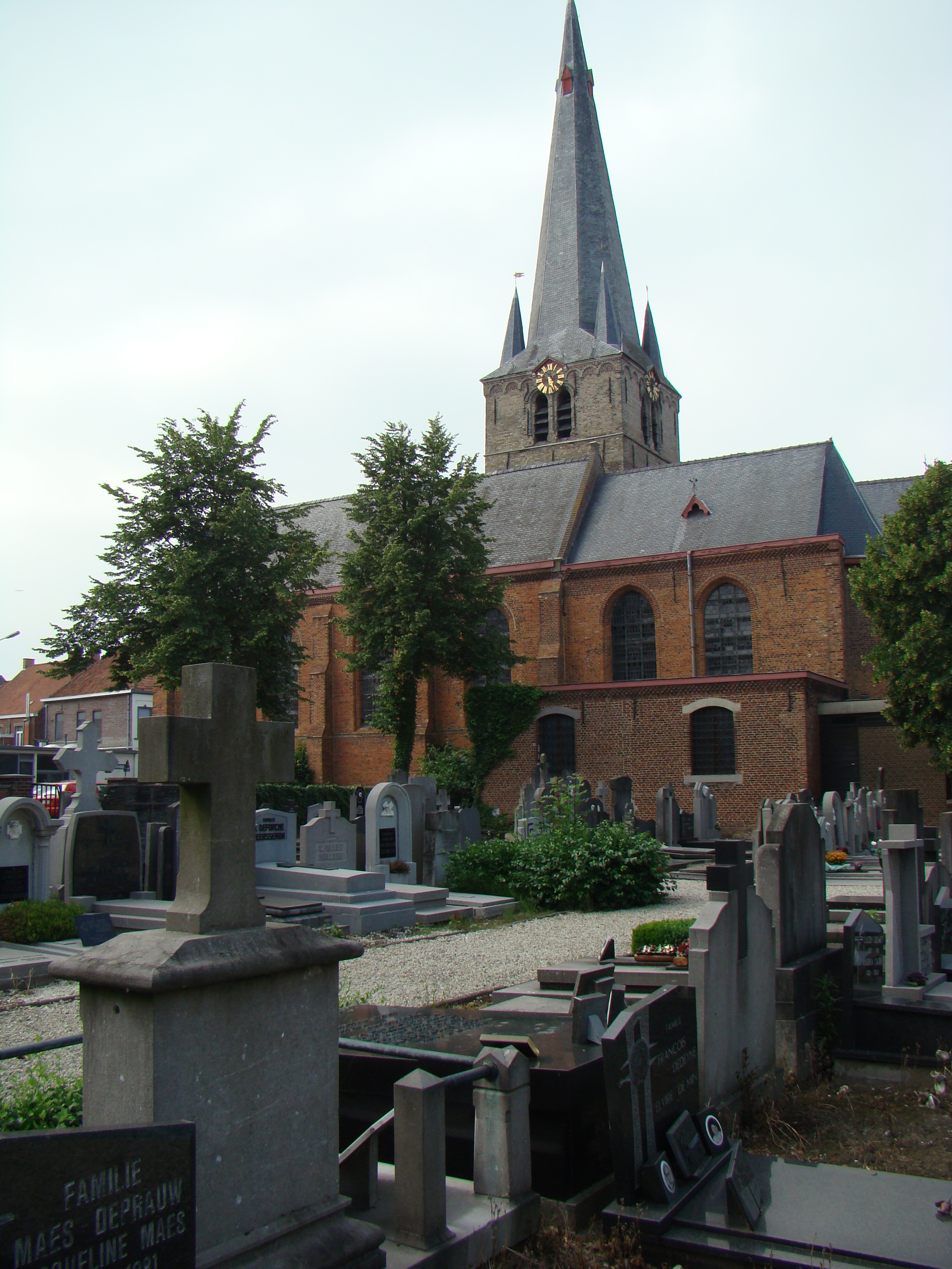 Sint-Peters church Emelgem, Izegem (West Flanders, Belgium)